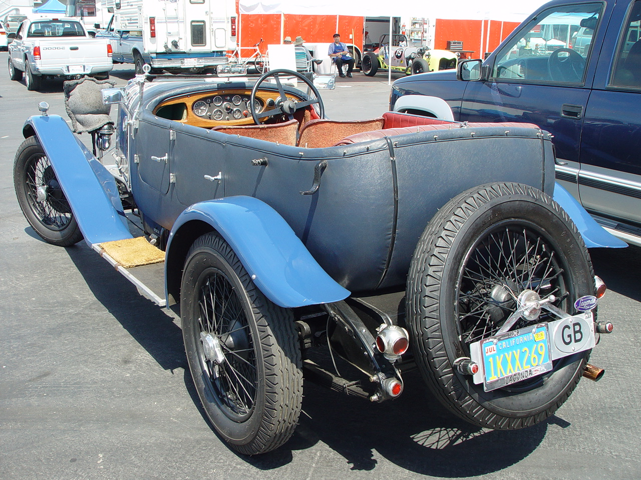 1929 Lagonda (from licence plate)